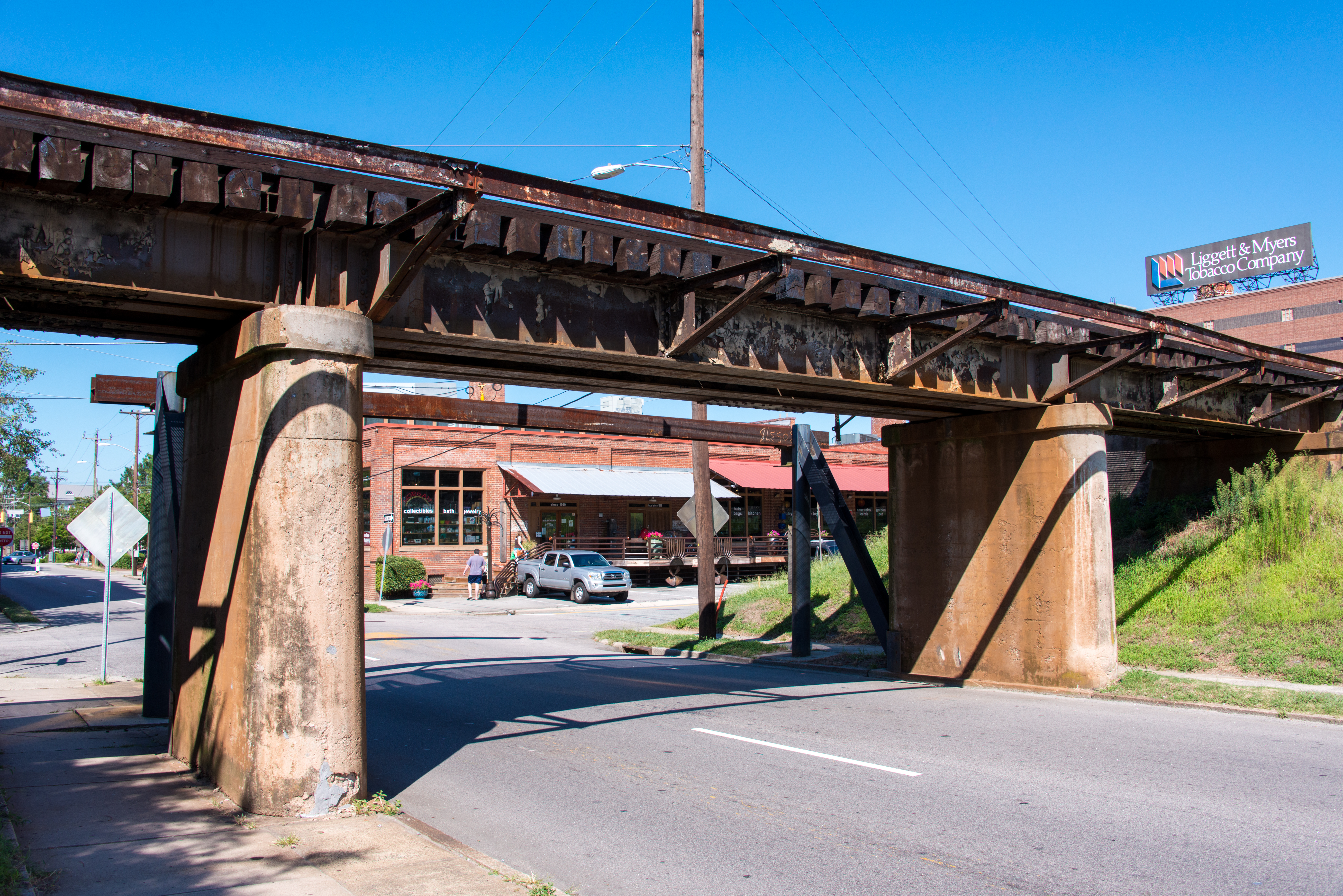 The famous Gregson Street Guillotine. Built in 1940, the Norfolk Southern-Gregson Street Overpass is located at the Gregson and Peabody intersection, in downtown Durham, North Carolina; it is famous for being constantly being hit by trucks who ignore the numerous height warnings.